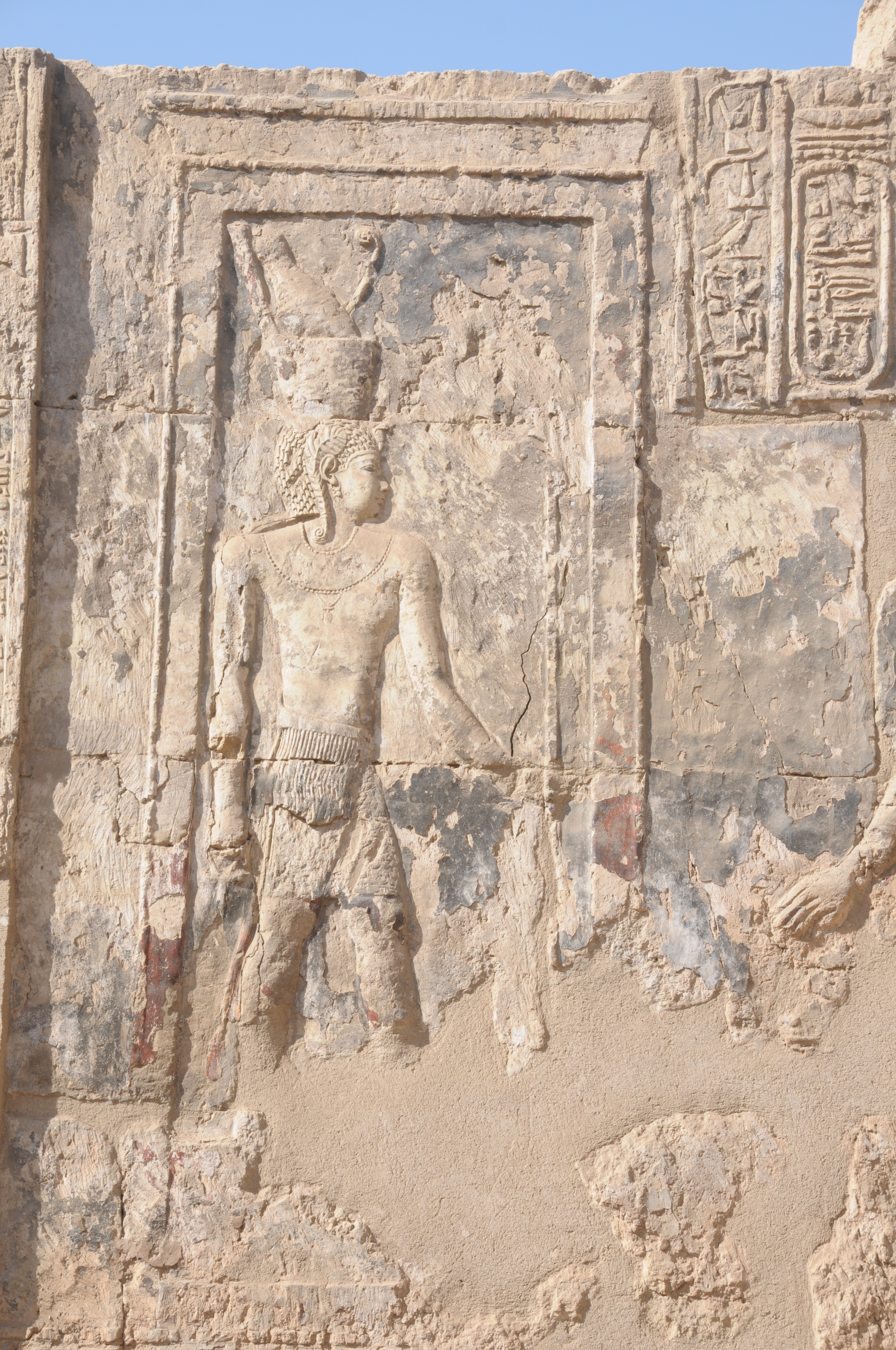 Relief of the child god Kolanthes (room C) in the Athribis temple in Sohag, Egypt